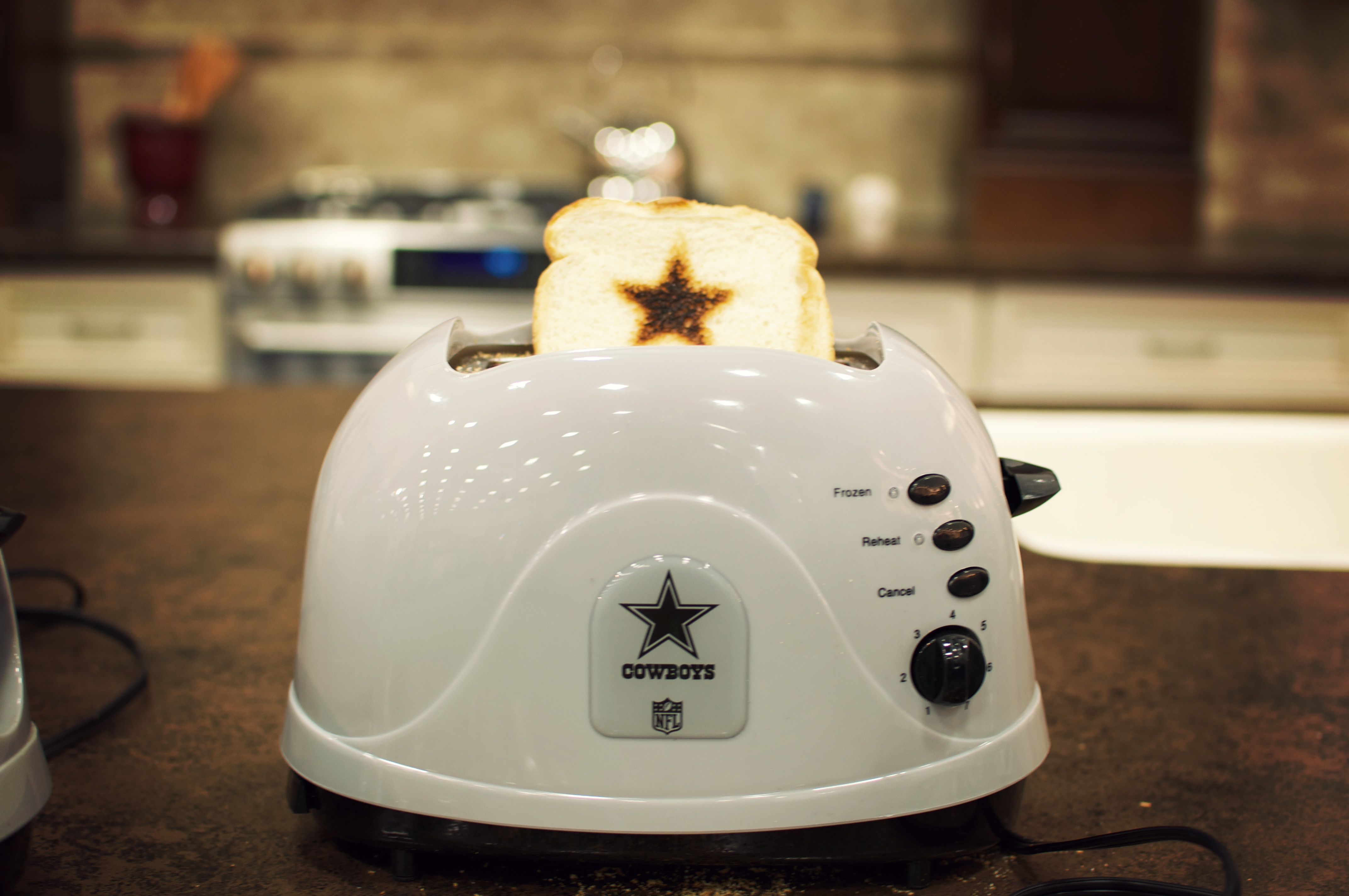 The NFL Experience - Super Bowl XLV Dallas, Texas